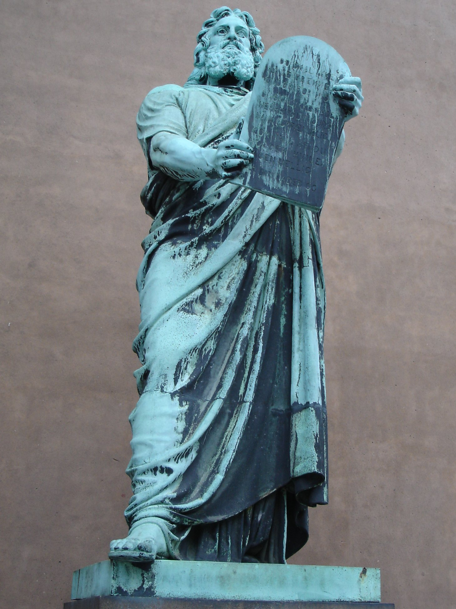 Statue of Moses in front of Vor Frue Kirke [Copenhagen Cathedral], Copenhagen, Denmark. Sculptor: H. W. Bissen (1798-1853). 1853